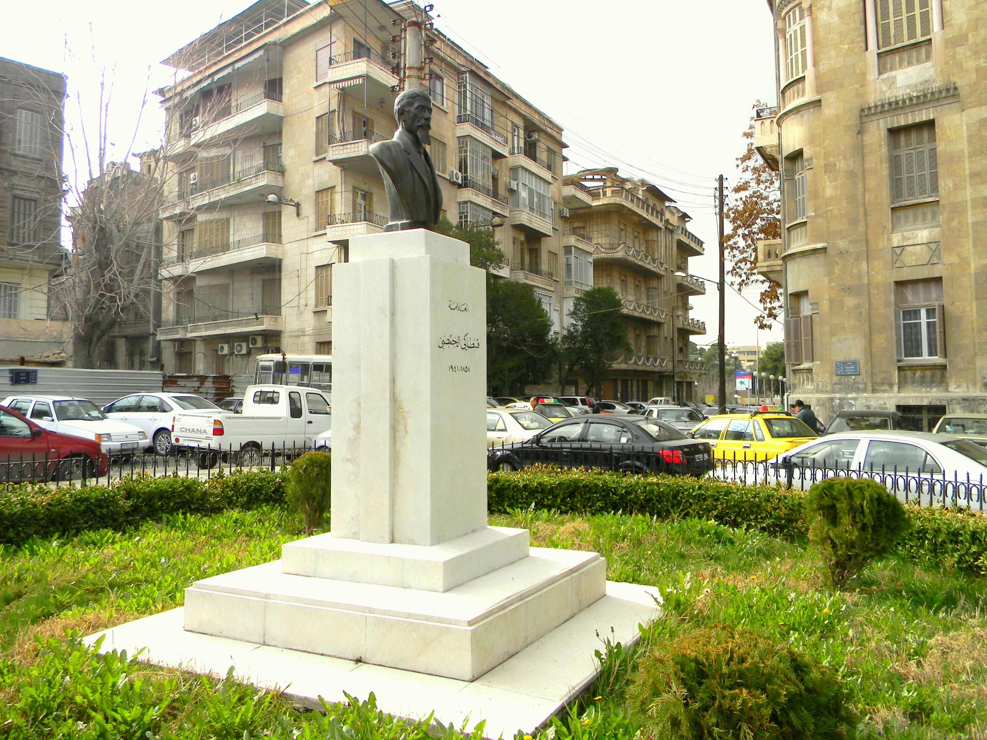 The staue of Qestaki Al-Homsi at the Liberty square, Aleppo